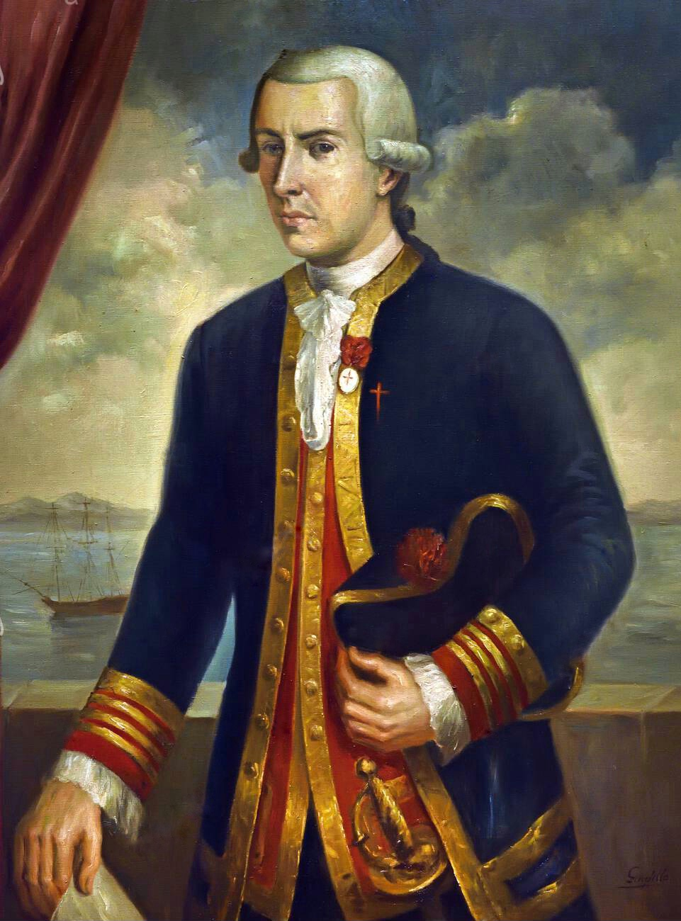 Spanish naval officer and explorer Juan Francisco de la Bodega y Quadra (1743-1794) wears the full dress uniform of a captain in the Marina real (the Spanish navy). Bodega y Quadra was the Spanish representative in the 1792 commission that met to implement the Nootka Bay Agreement, along with British officer and explorer George Vancouver.